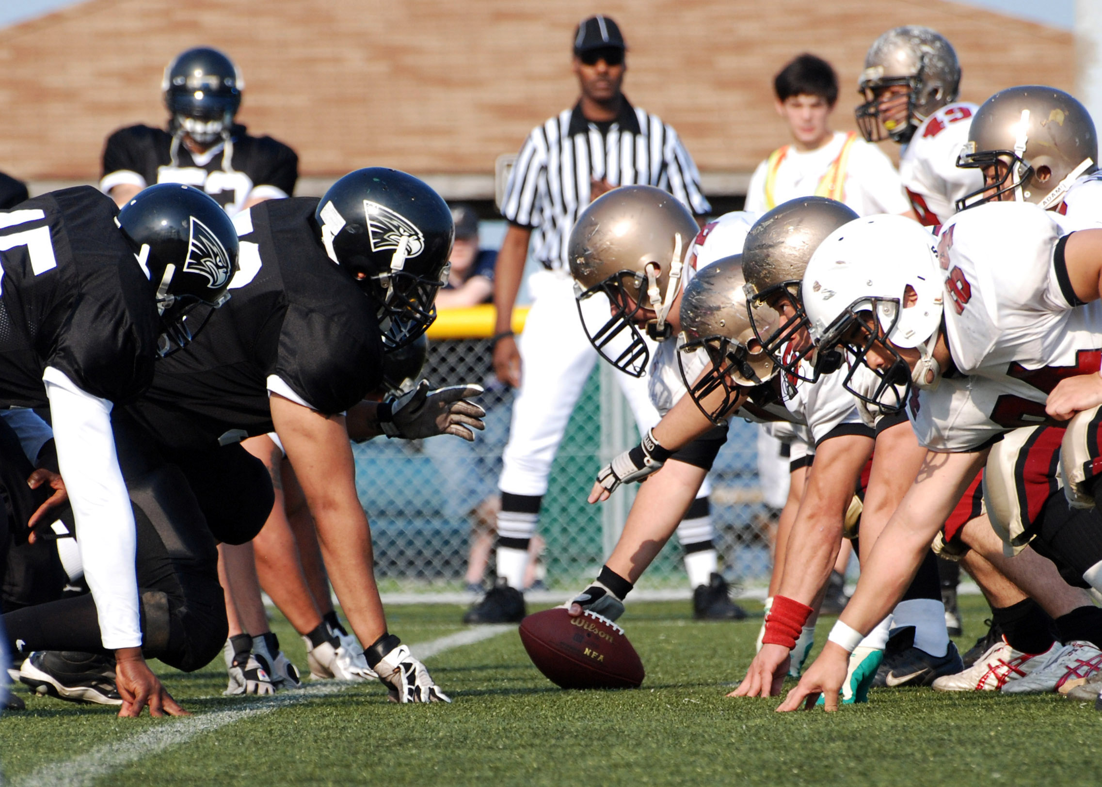 YOKOSUKA NAVAL BASE (June 8, 2009) The Yokosuka Seahawks face off against the Yokohama Harbors during the U.S. Forces Japan-American Football league at Yokosuka Field. The Seahawks beat the Harbors 34-3. (U.S. Navy photo by Mass Communication Specialist Seaman Dominique Pineiro/Released)